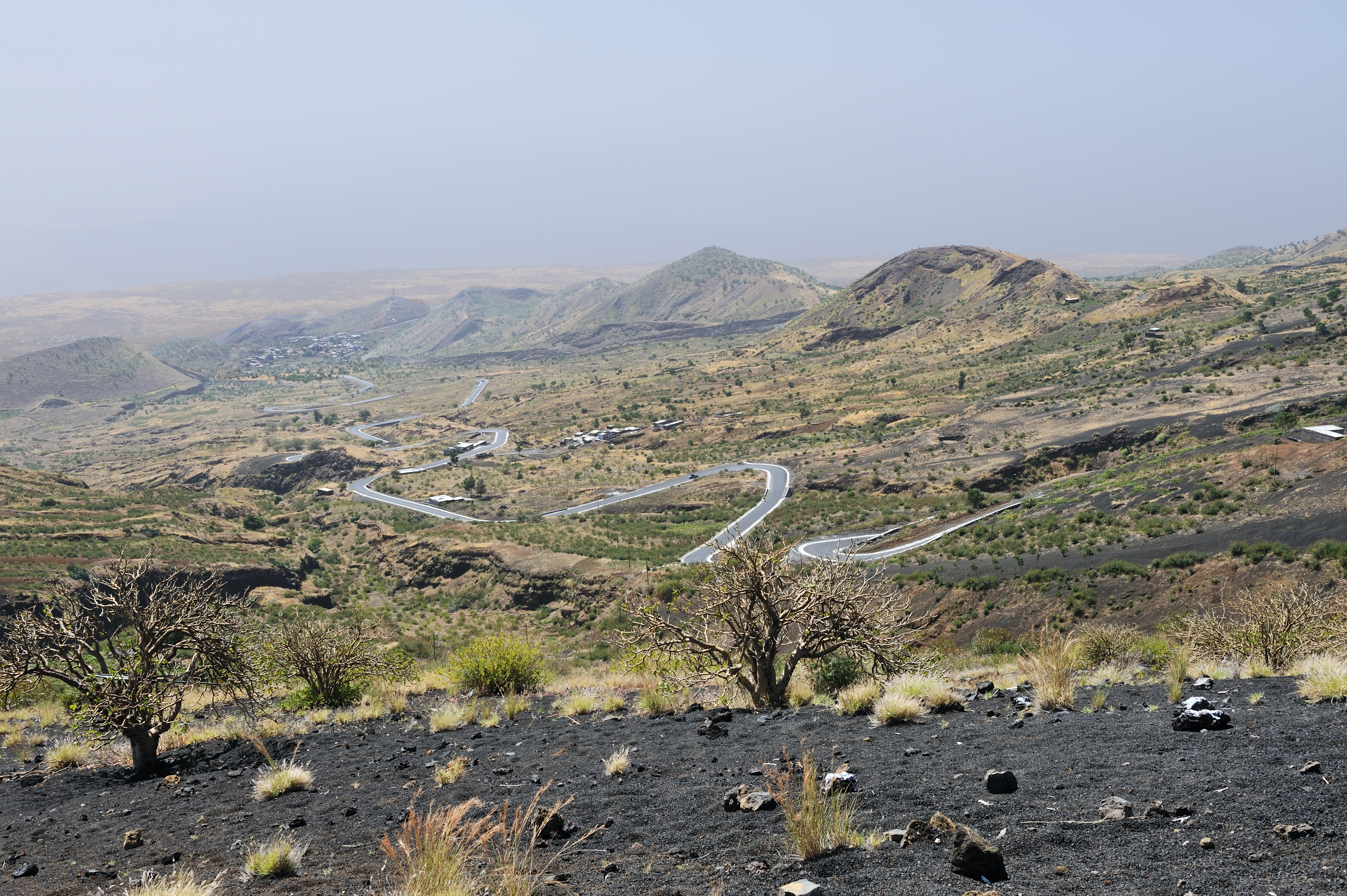 Cape Verde, island of Fogo: landscape with road leading to Chã das Caldeiras in the caldeira of Pico do Fogo.